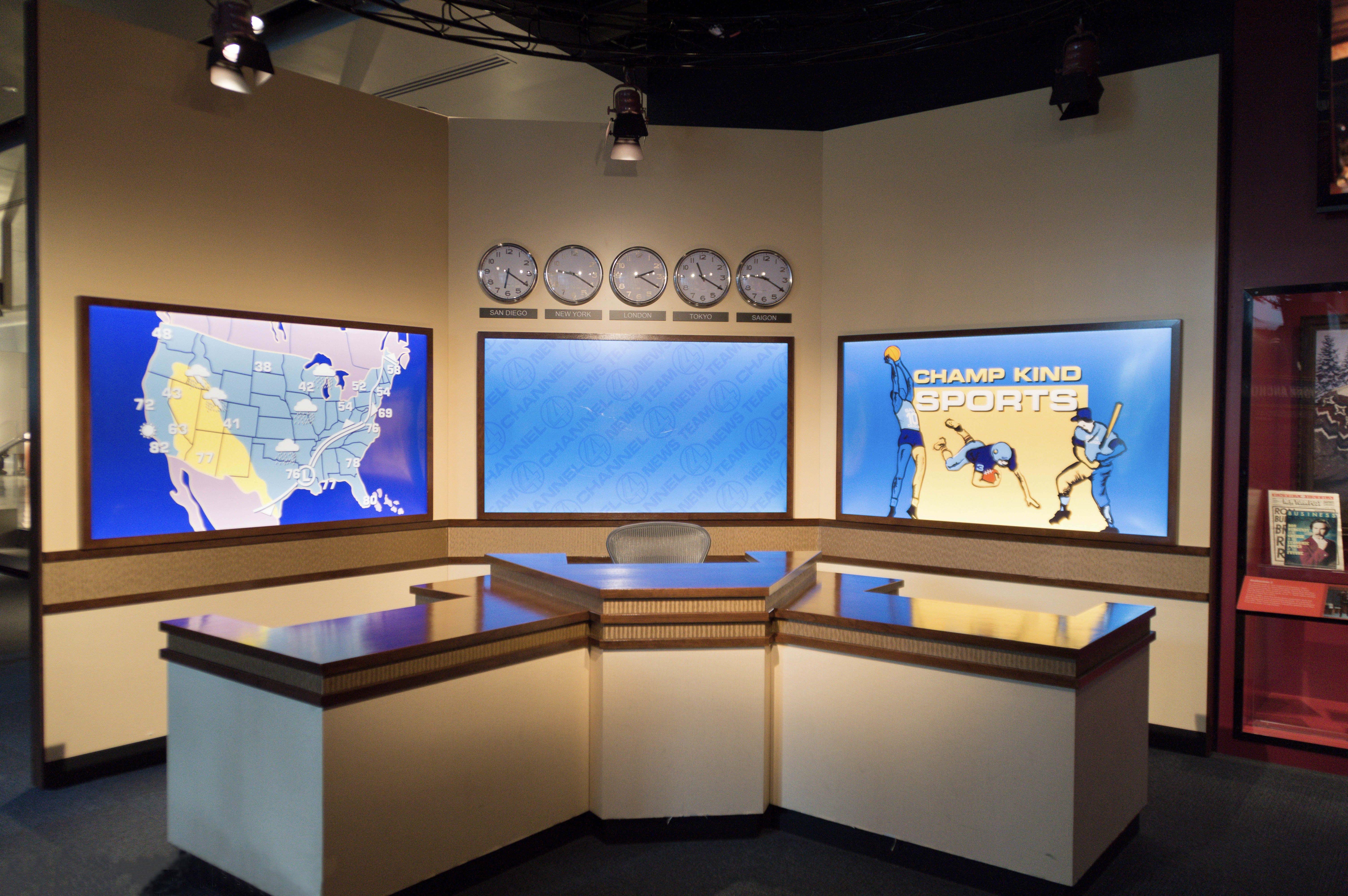 Replica of the anchorman newsdesk from the 2004 film Anchorman: The Legend of Ron Burgundy, on display in the Newseum, Washington, D.C.